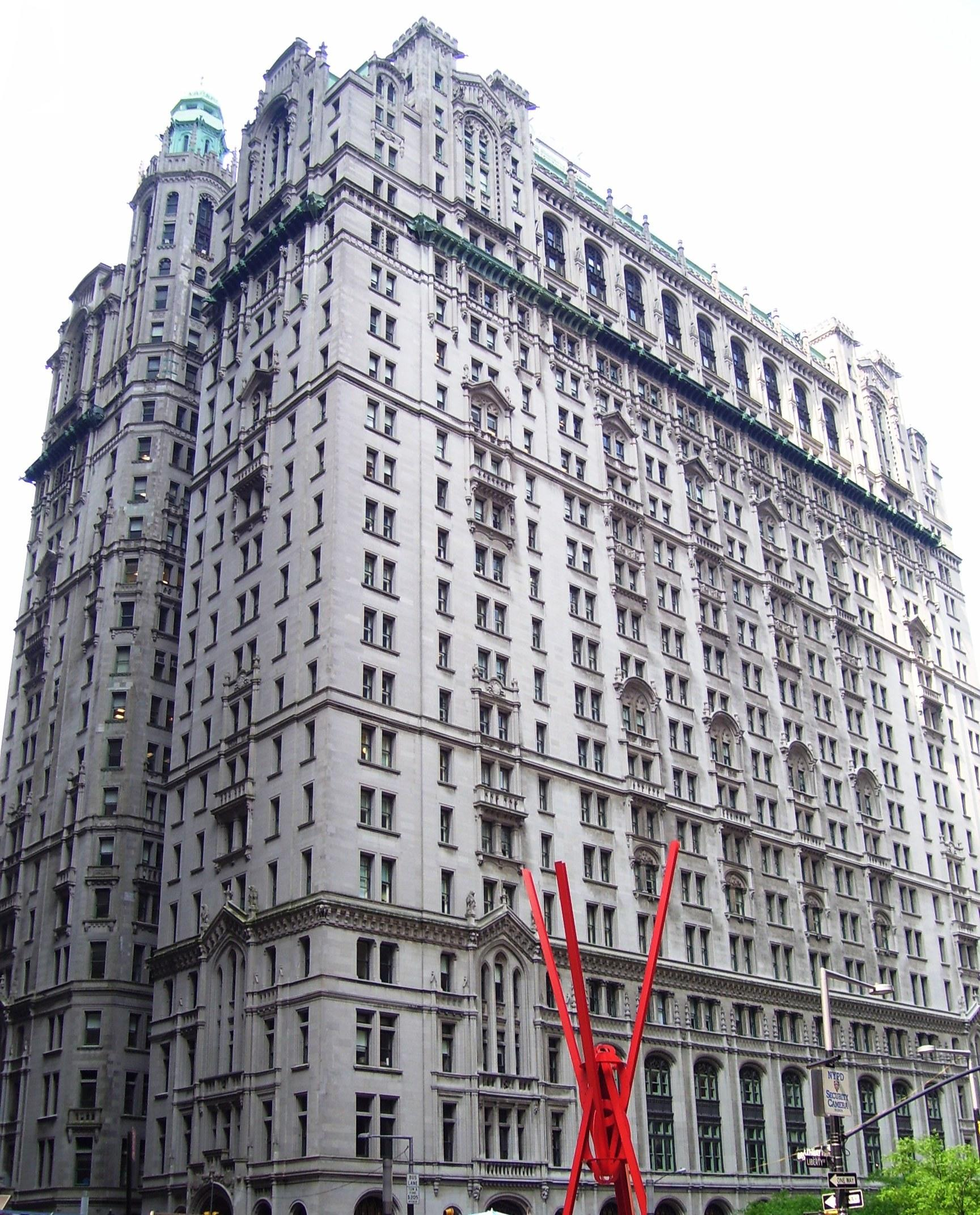 The Trinity (left) and U.S. Realty (right) Buildings at 111 and 115 Broadway between Cedar and Rector Streets, in the Financial District of Manhattan, New York City. Thames Street runs between the buildings, which run the full block from Broadway to Trinity Place. Both were built from 1904-07 and were designed by Francis H. Kimball with Gothic detailing to fit in with Trinity Church to their south. Both buildings were designate NYC landmarks in 1988, and both were renovated in 1988-89 by Swanke Hayden Connell. (Sources: Guide to NYC Landmarks (4th ed.) and AIA Guide to NYC (4th ed.)) In the foreground is Zuccotti Park (Liberty Plaza Park) and Joie de Vivre by Mark di Suvero.